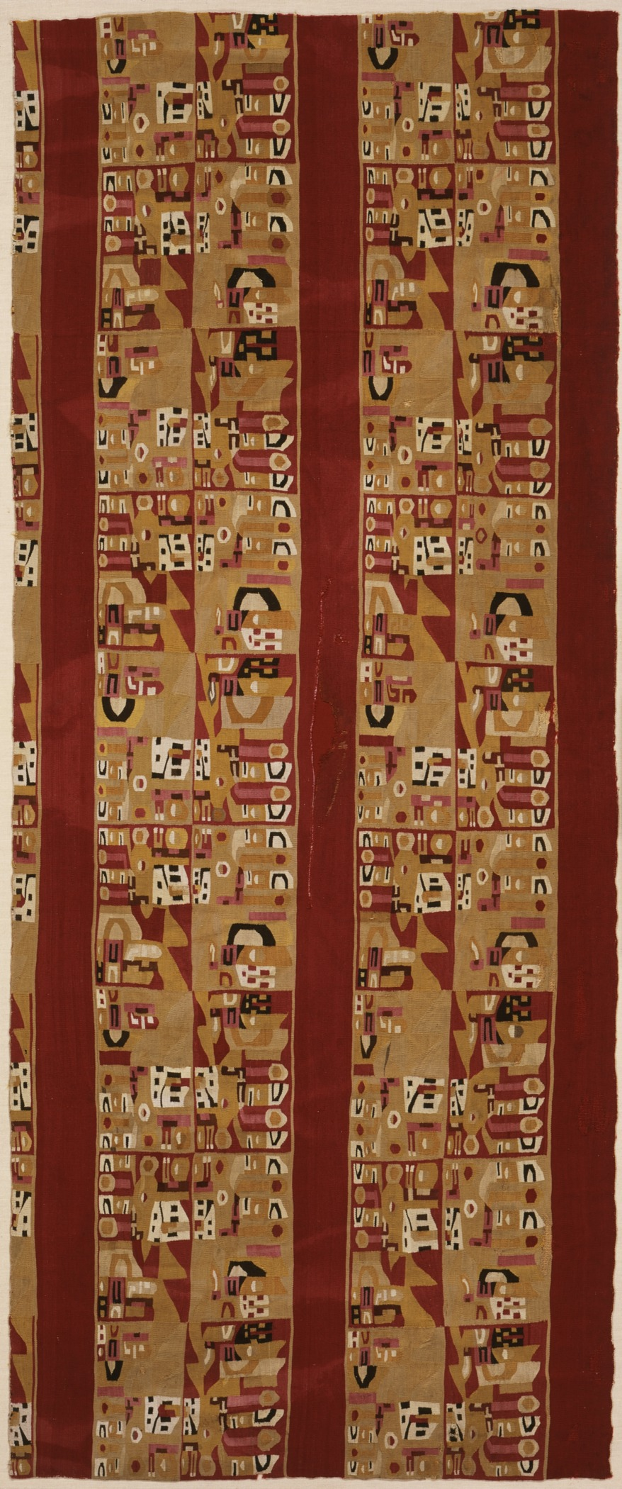 Peru, South Coast, Wari, 600-850 Costumes Camelid fiber and cotton; interlocked tapestry 50 x 21 in. (127 x 53.34 cm) Costume Council and Museum Associates Fund (M.80.71.1) Costume and Textiles